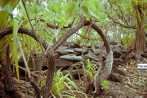 The stacked stone wall of an ancient Tuamotuan marae or temple, on Nake Islet, Caroline Atoll, Kiribati